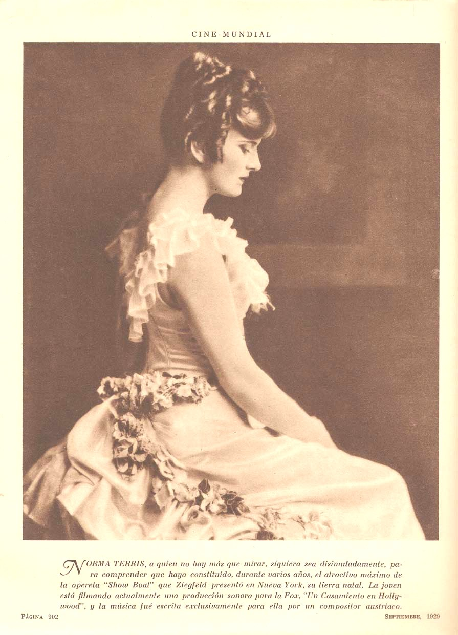 Publicity photo of Norma Terris for Argentinean Magazine. (Printed in USA)